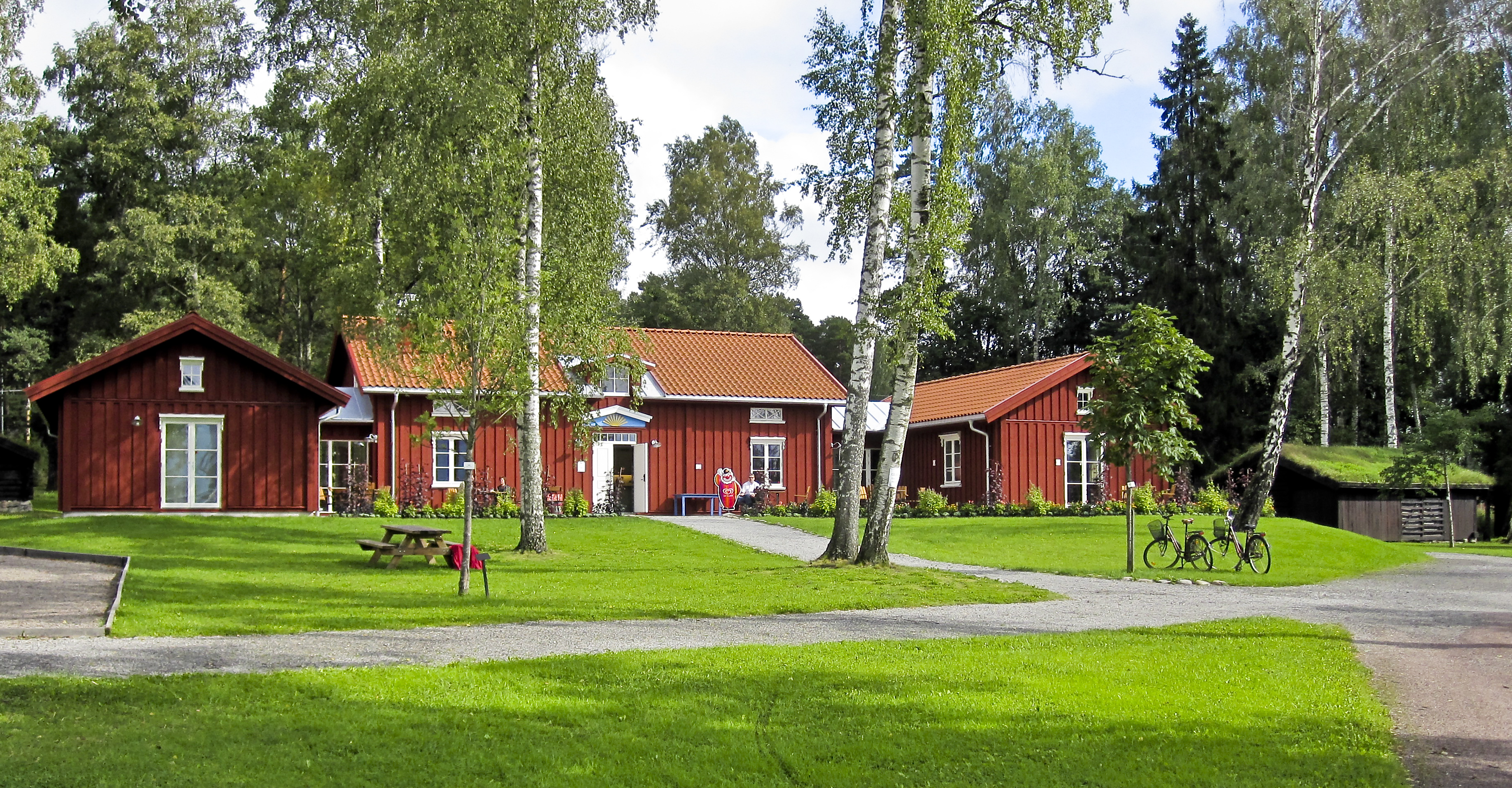 New-built house, Sågudden open air museum, Arvika, Sweden